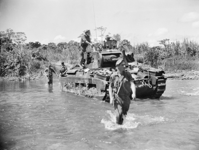 A Matilda tank from the 2/4th Armoured Regiment, Australian Army, crossing the Hongorai River on Bougainville in May 1945